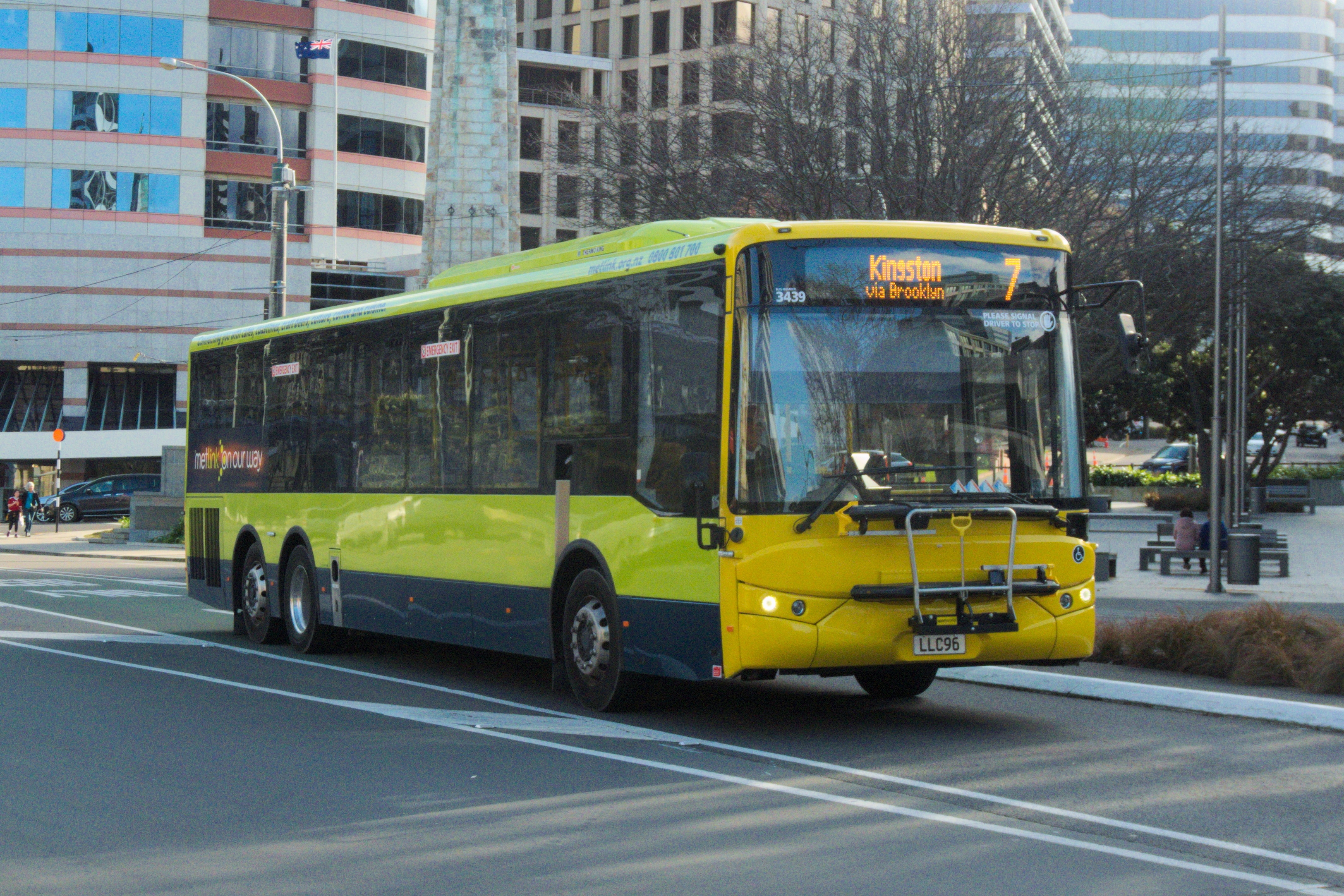 The new colour scheme for all Metlink buses. This bus is operating the no. 7 route (Wellington - Kingston).